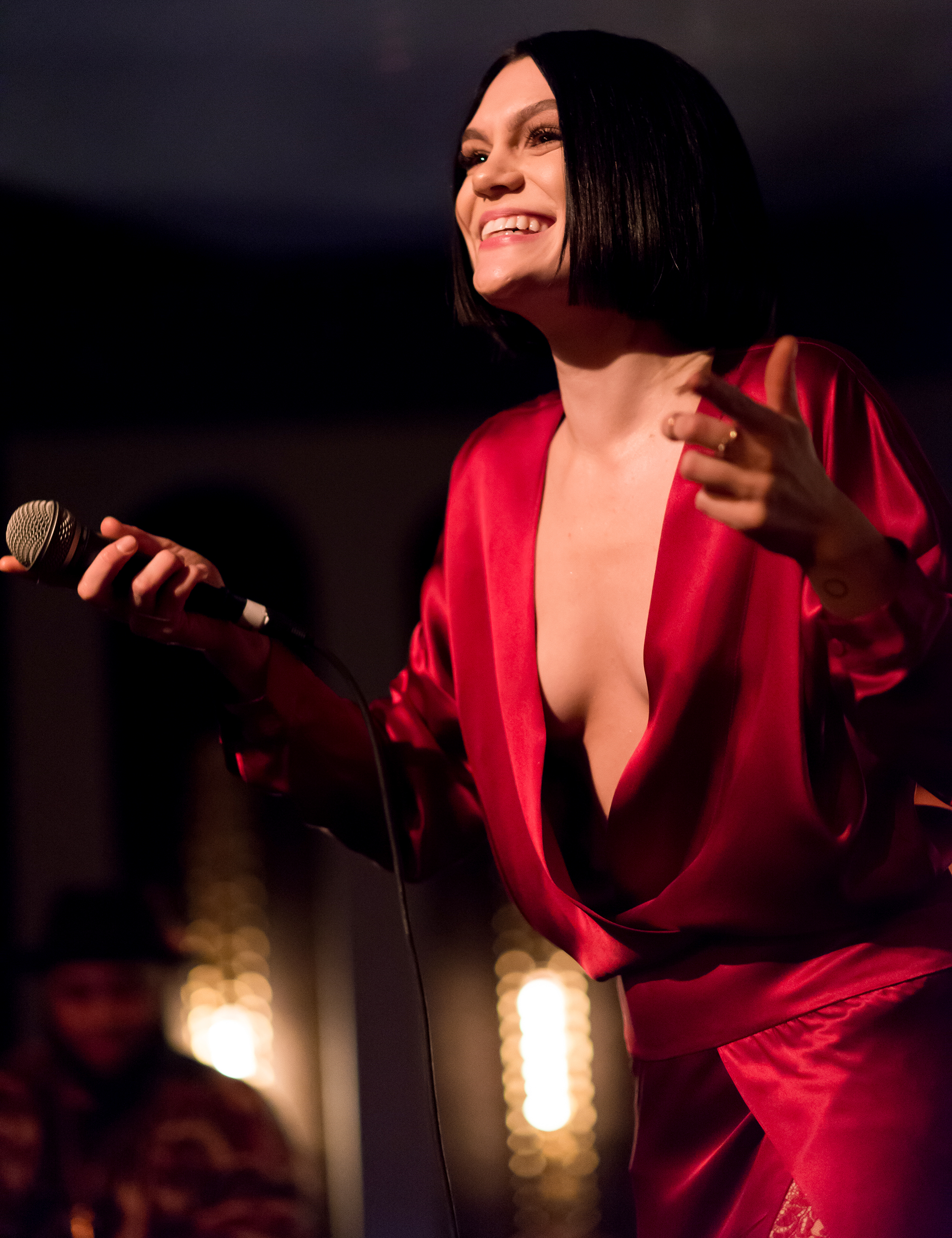 Jessie J performing live at The Peppermint Club in Los Angeles, California, on Sunday, December 17, 2017.